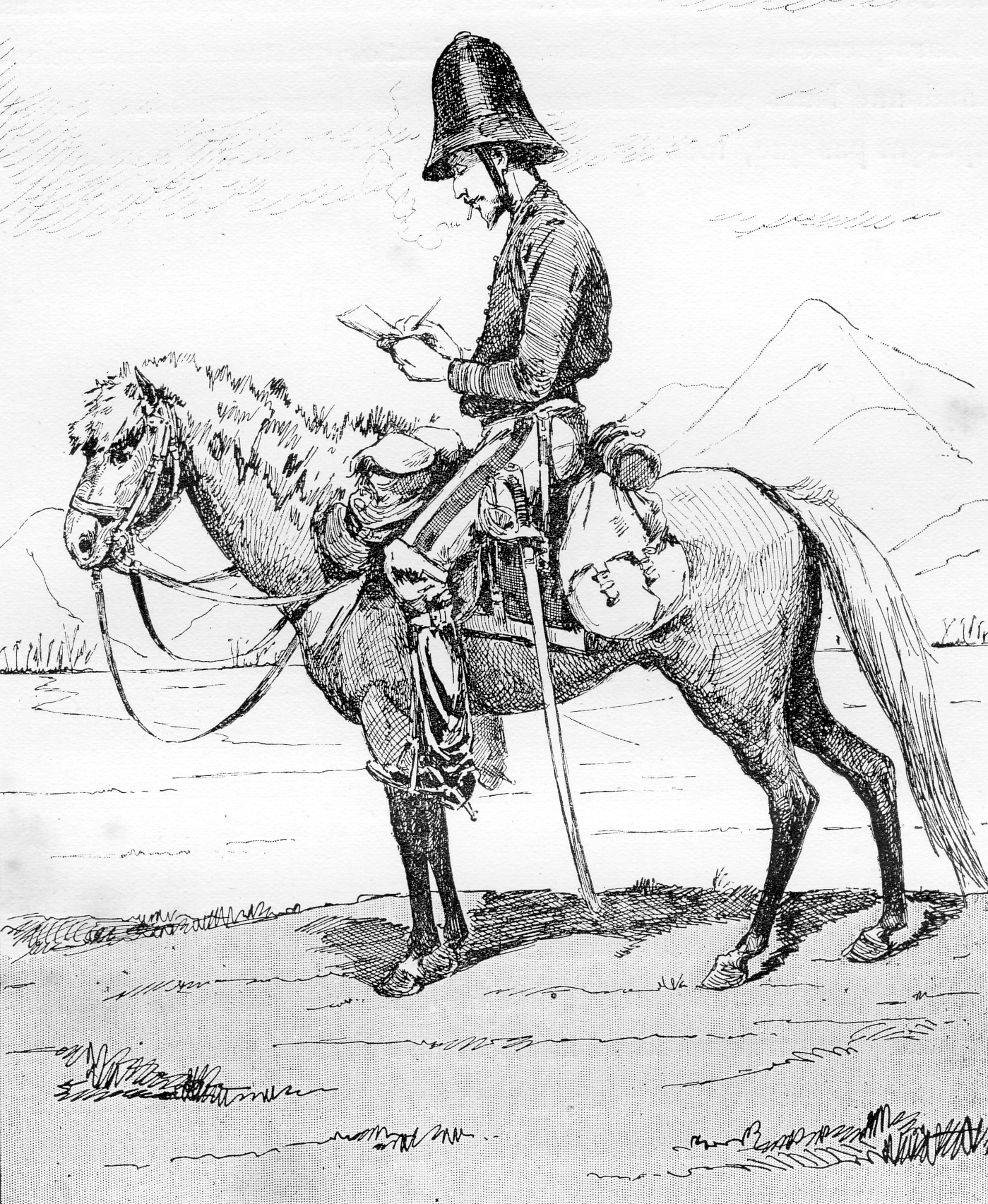 Drawing of French officer of the topographical service in Tonkin, 1884